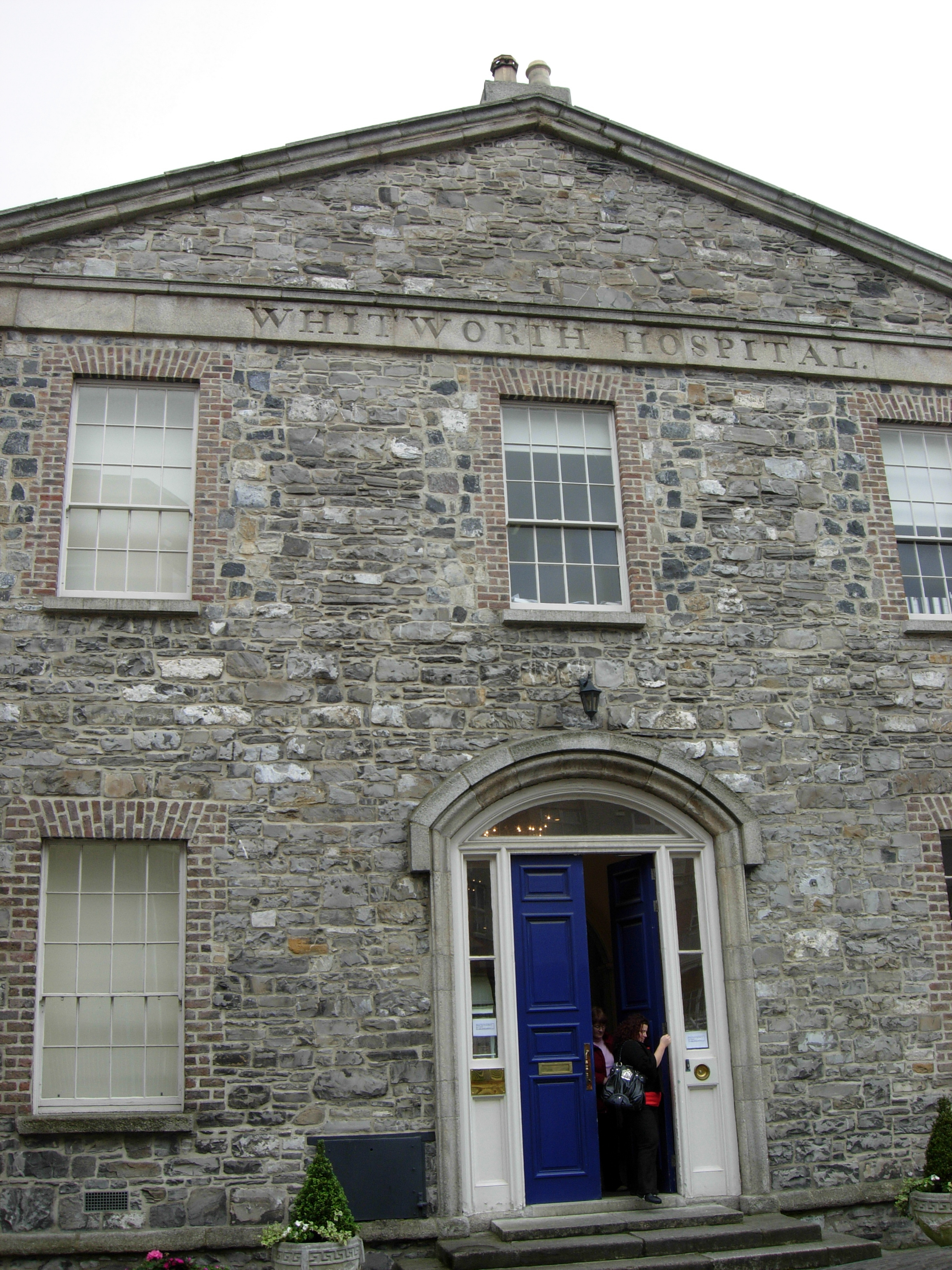 The Whitworth Hospital for Chronic Patients established 1814. Currently it serves as offices for the Irish Nurses Organisation. This hospital, established by the Dublin House of Industry, is located on Morning Star Avenue (which is off North Brunswick Street) Dublin 7, Ireland. Grangegorman.